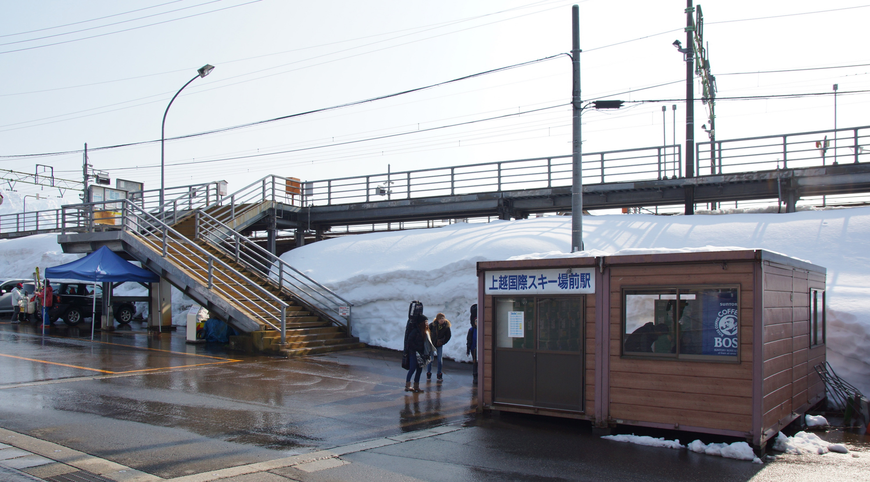 The prefab waiting room on the north side of Joetsu International Skiing Ground Station in Niigata Prefecture, Japan